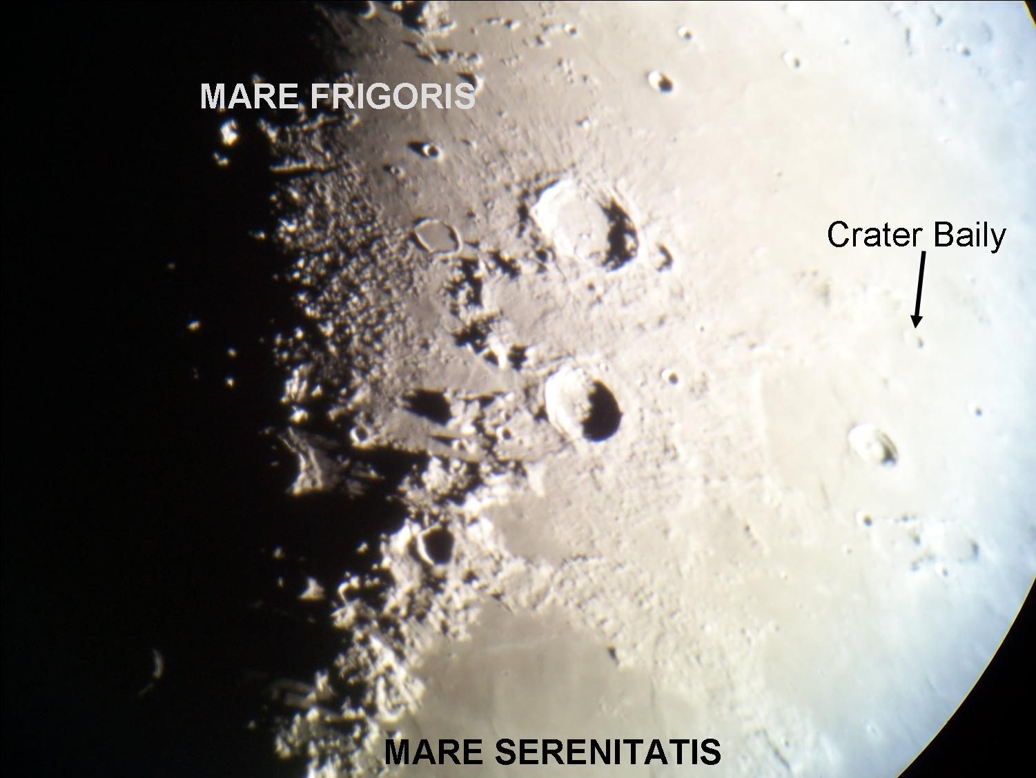 Crater Baily photographed by Eric S. Kounce of the West Texas Astronomers ( on October 28, 2006 from the McDonald Observatory's 36-Inch Telescope.